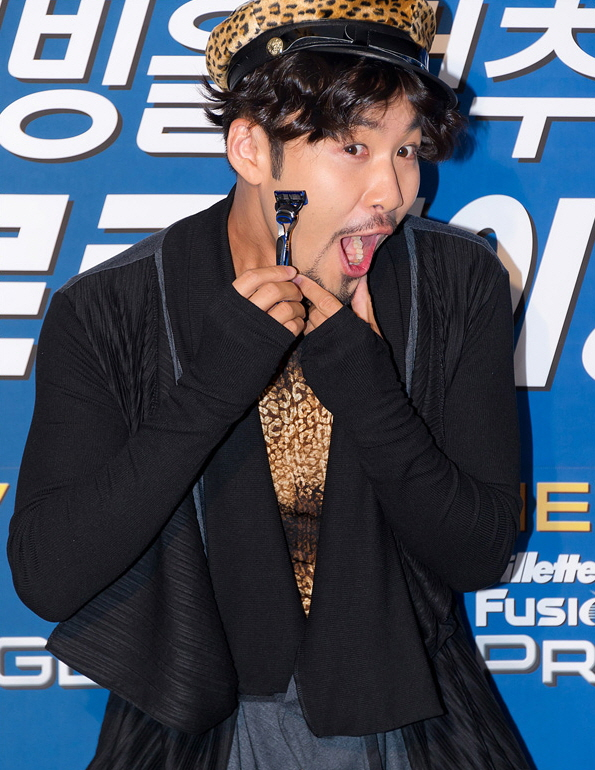 Noh Hongchul at the Gillette Fusion ProGlide launching event in Seoul, on September 7, 2011